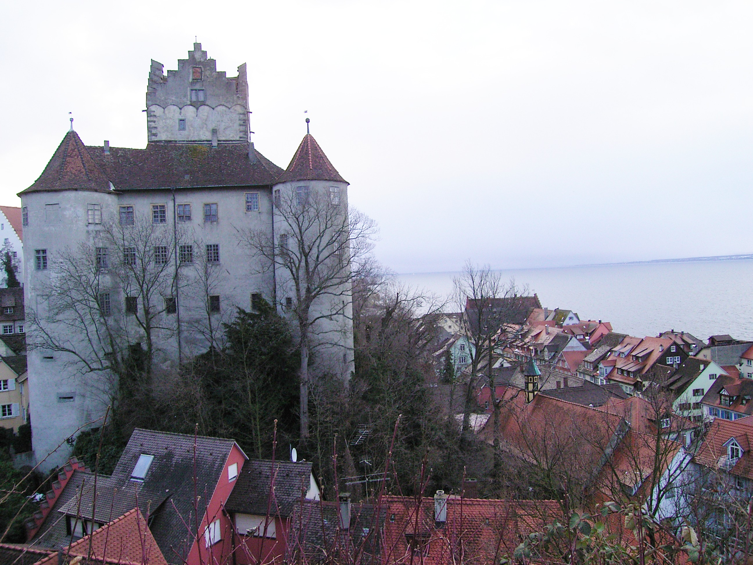 The Castle of Meersburg and a Part of the old City